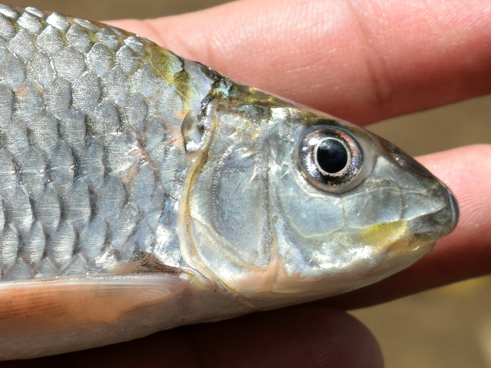 Sucker barb Barbichthys laevis; 148 mm SL; head close up, note the enlarged sub-orbital bones. From North Musi Rawas (Muratara), South Sumatra, Indonesia.